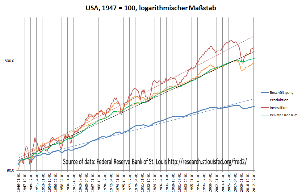 Long series of economic data from the US, logarithmic scale, source of data